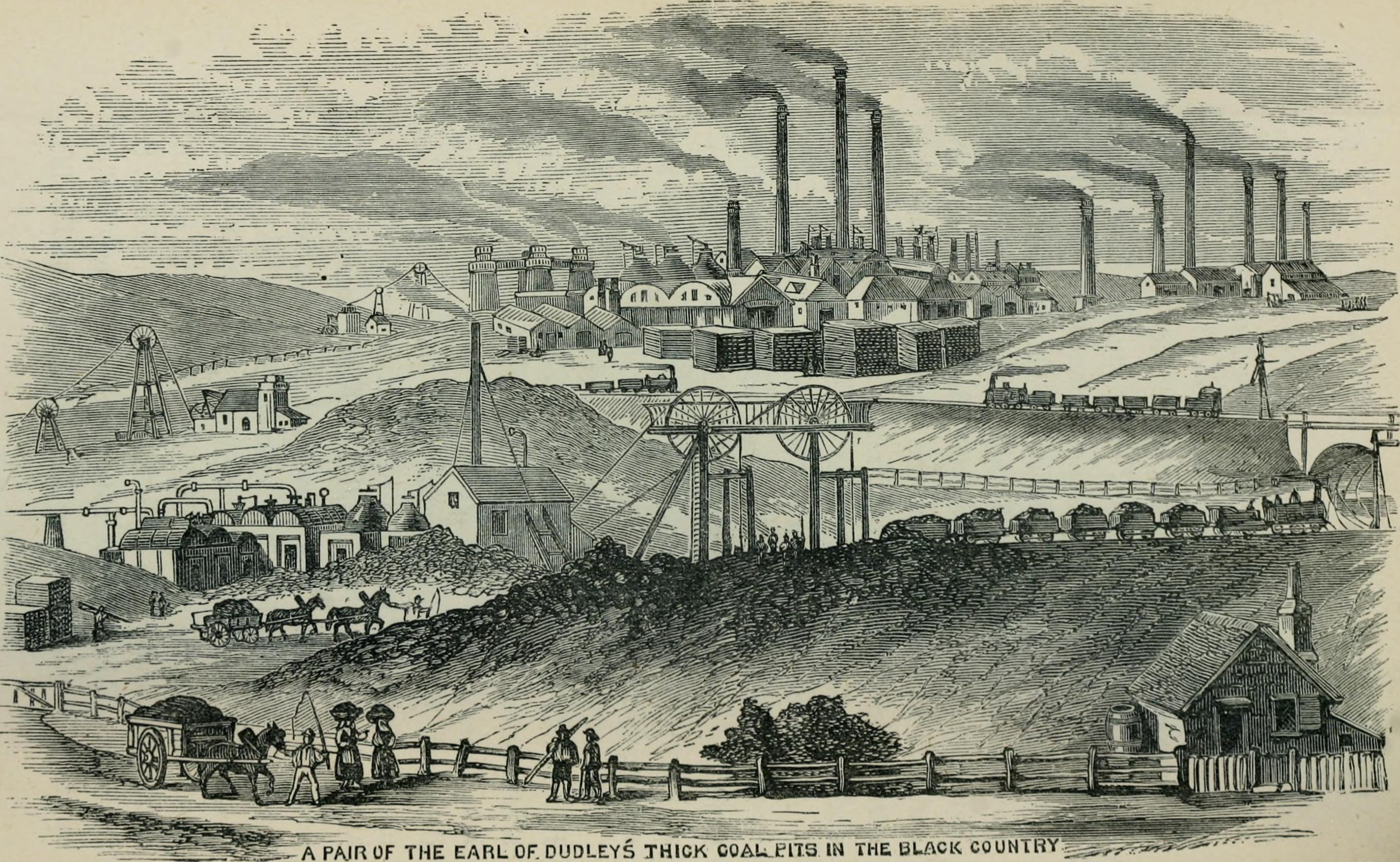 Title: Griffiths' Guide to the iron trade of Great Britain ... an elaborate review of the iron (and) coal trades for last year, addresses and names of all ironmasters, with a list of blast furnaces, iron manufactories, and other statistics and information respecting iron and coal .. Year: 1873 (1870s) Authors: Griffiths, Samuel, editor of "The London Iron Trade Exchange" Subjects: Coal trade Iron industry and trade Publisher: London, Published for the Proprietor Text Appearing Before Image: Sparrow was lookedup to particularly during the latter part of his hfe, Text Appearing After Image: '